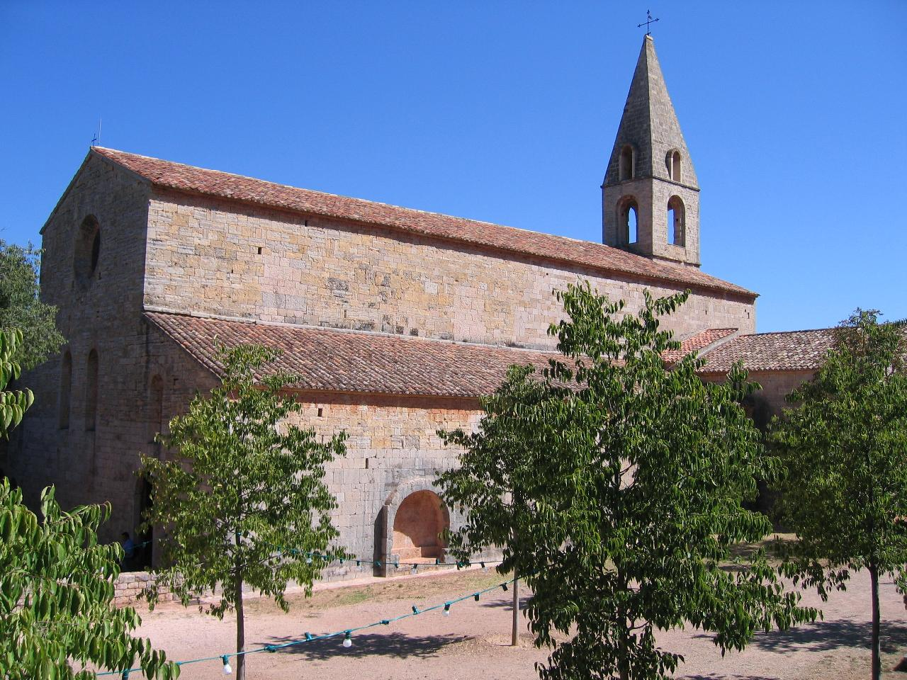 The church of Le Thoronet Abbey, Var, France, taken from the south west.